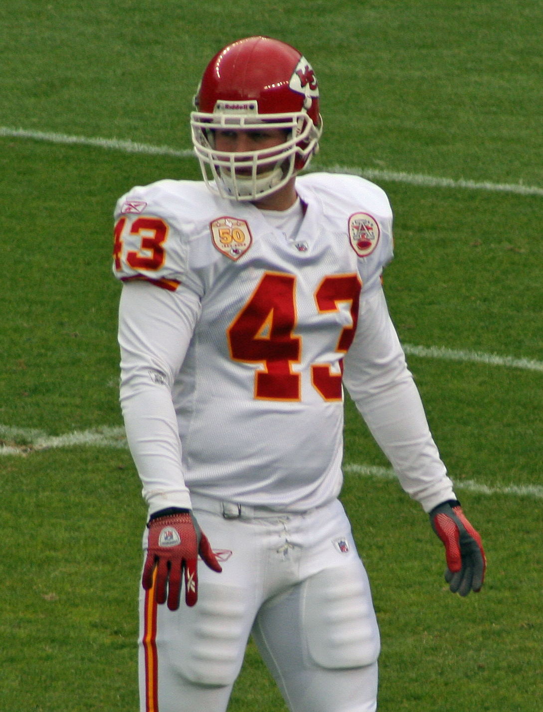 Thomas Gafford, a player on the Kansas City Chiefs American football team.